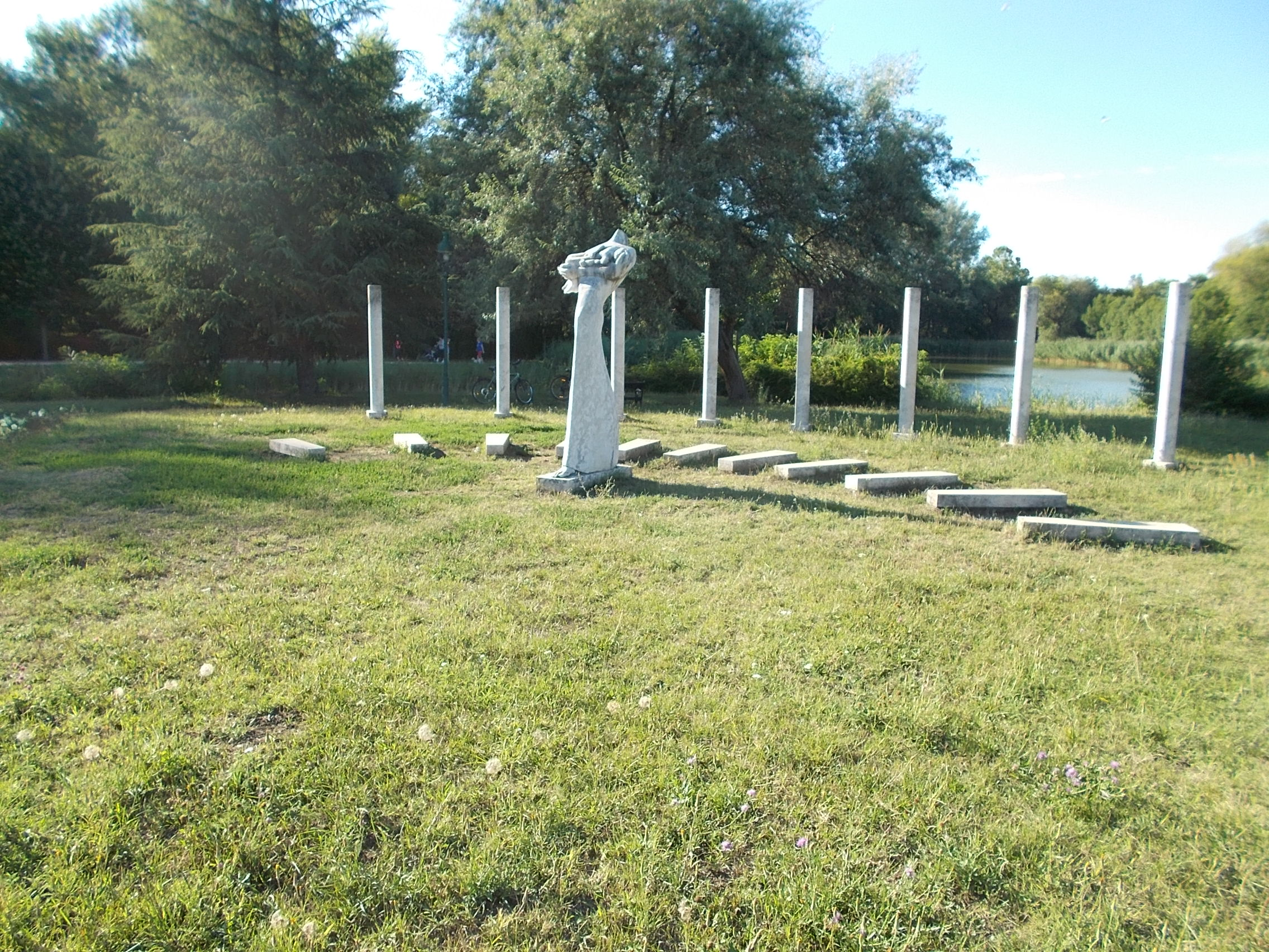 Sundial by László Szunyogh sculptor and István Kovaliczky astronomer ( 2001 limestone works, Millenium of Hungary relted, Géza of Hungary and Stephen I of Hungary as children) on the island of the Boating lake of in Millenium Park, Bánhida neighborhood, Tatabánya, Komárom-Esztergom County, Hungary.